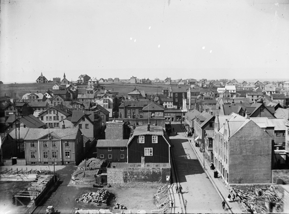 Séð inn Austurstræti frá Reykjavíkurapóteki, 1917. Reykjavík, Iceland. Austurstræti seen from Reykjavík pharmacy, 1917 Ljósmyndari / Photographer: Magnús Ólafsson Format: Glerplata / Glass negatives. 9 x 12 cm. Höfundarréttur / Rights Info: Enginn þekktur höfundarréttur /No known restrictions on publication. Geymsla / Repository: Ljósmyndasafn Reykjavíkur / Reykjavík Museum of Photography, Tryggvagata 15, 6. Hæð / 6th floor Númer myndar / Call Number: MAÓ 193 Myndavefur Ljósmyndasafnsins / Reykjavík Museum of Photography´s photoweb: ljosmyndasafn.reykjavik.is/fotoweb/Grid.fwx